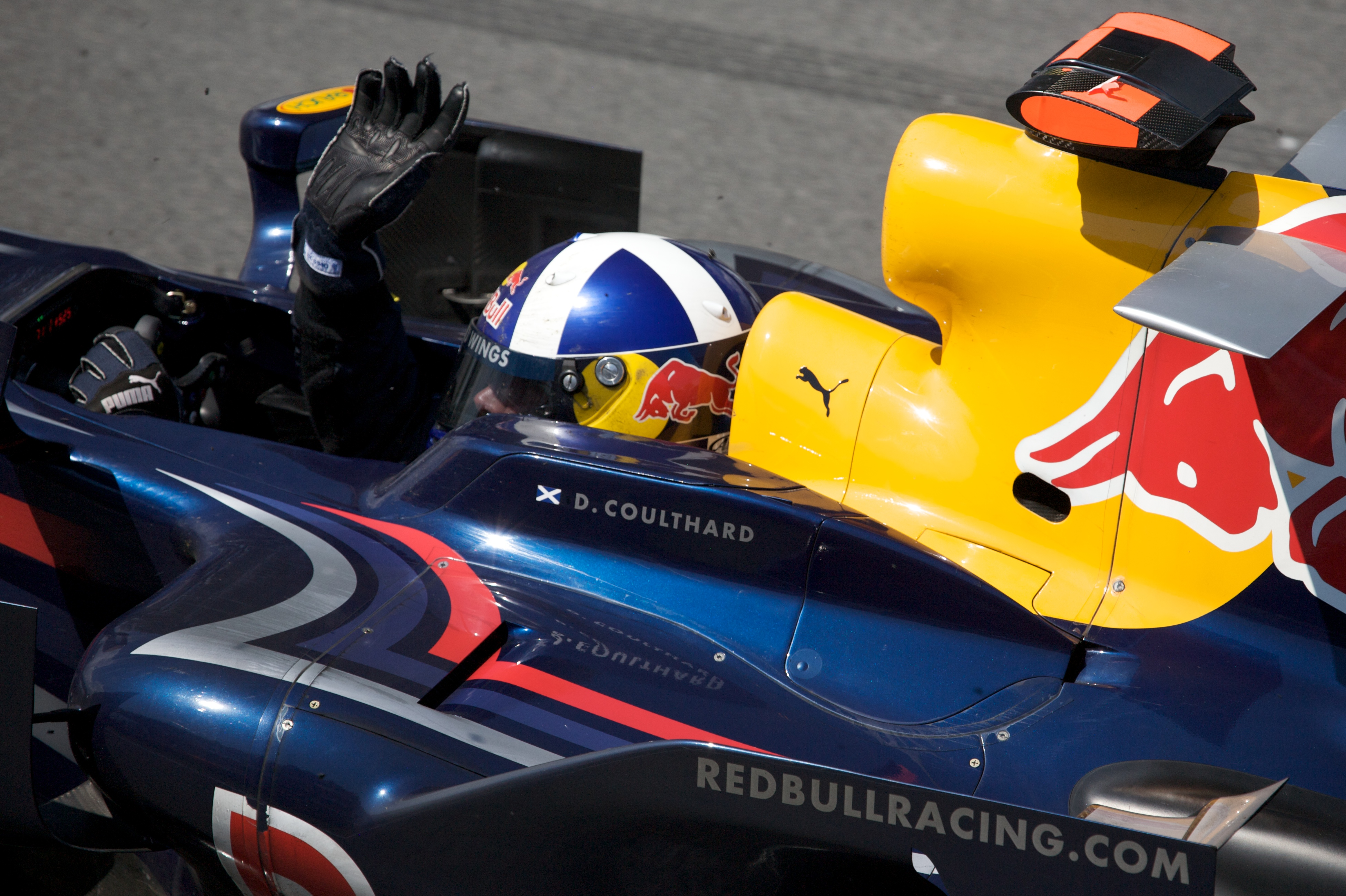 Coulthard Canada 2008